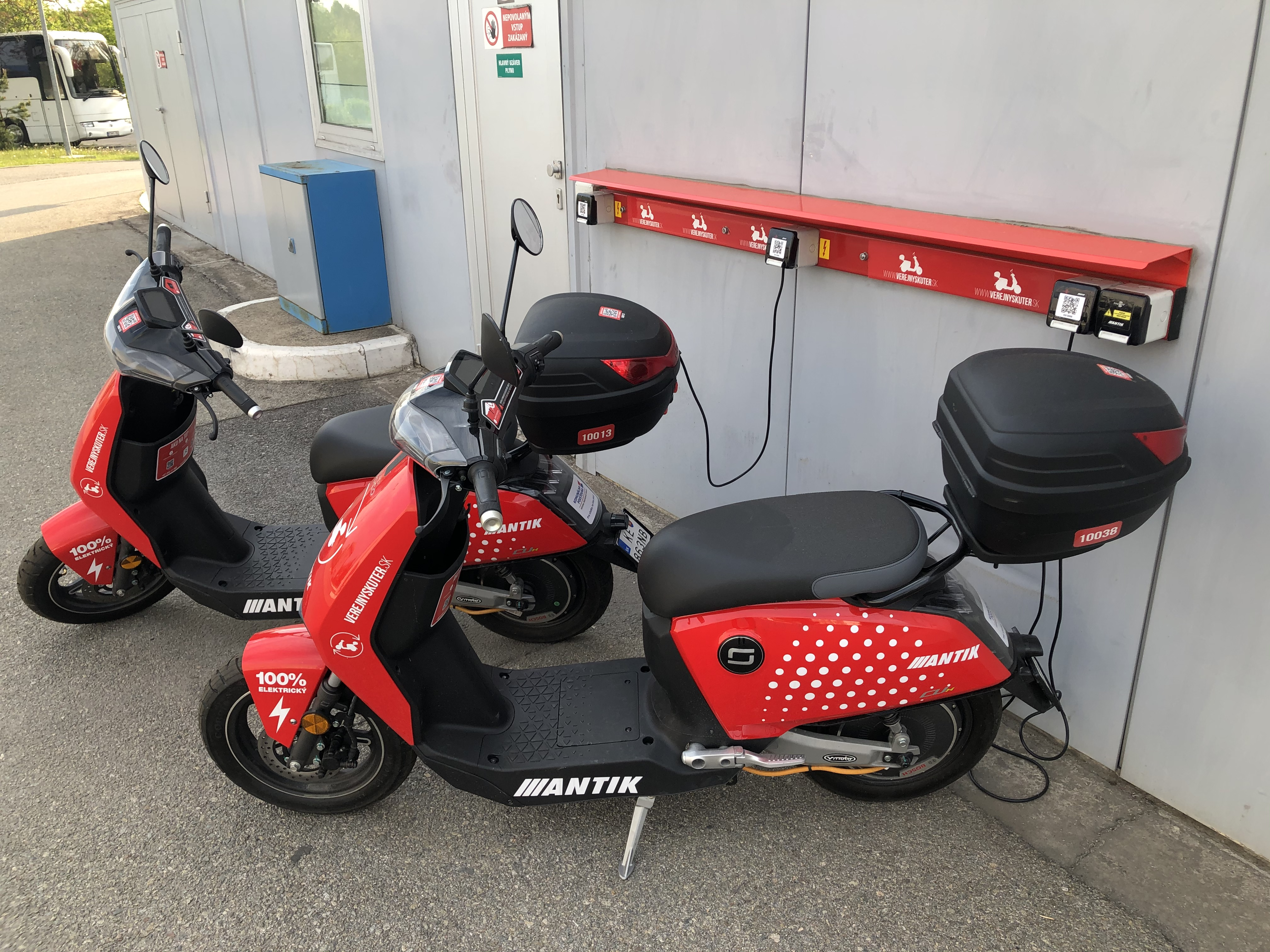 Scooter sharing station located in Košice, provided by Antik Telecom